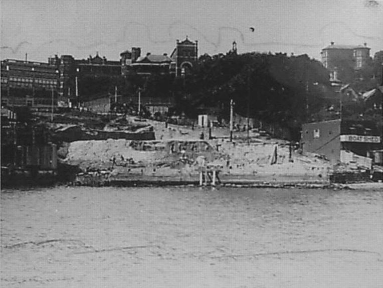 Jeffrey Street foreshore photo taken in the 1930s